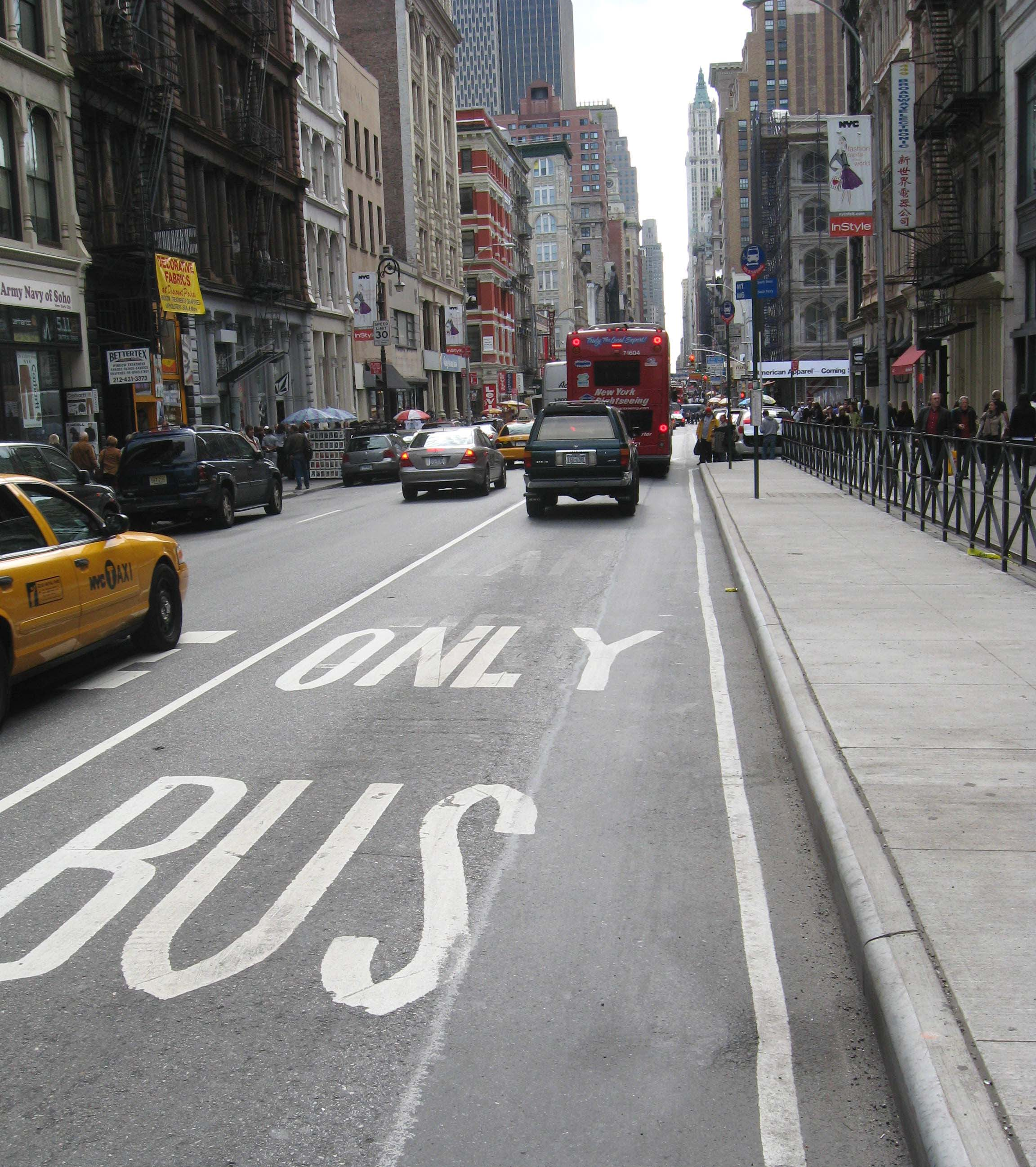 Looking south down Broadway from Grand Street (Manhattan) at a bus lane with a tour bus in it, WTM target #R15. This photo is of Wikis Take Manhattan goal code R15, Dedicated Bus Lane.